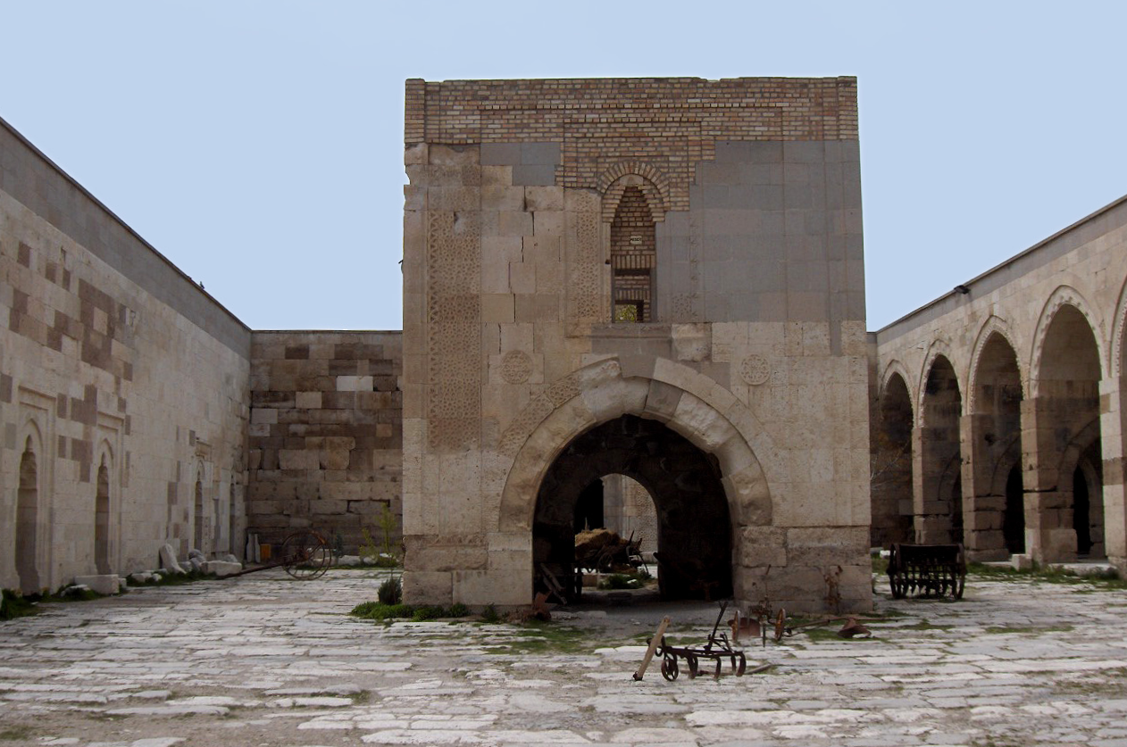 Inner courtyard of the caravanserai at Aksaray, Turkey. The square small mosque (mesçit) is the oldest example of the so-called kiosk-mosque (köşk mesçidi).